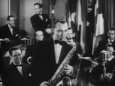 Cropped screenshot of Freddy Martin from the film Stage Door Canteen.